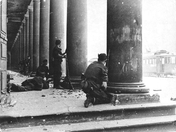 Warsaw Uprising: Germans and Ukrainians attacking Town Hall and Blank Palace from behind columns of Warsaw Opera House (Teatr Wielki) at Theater Square.